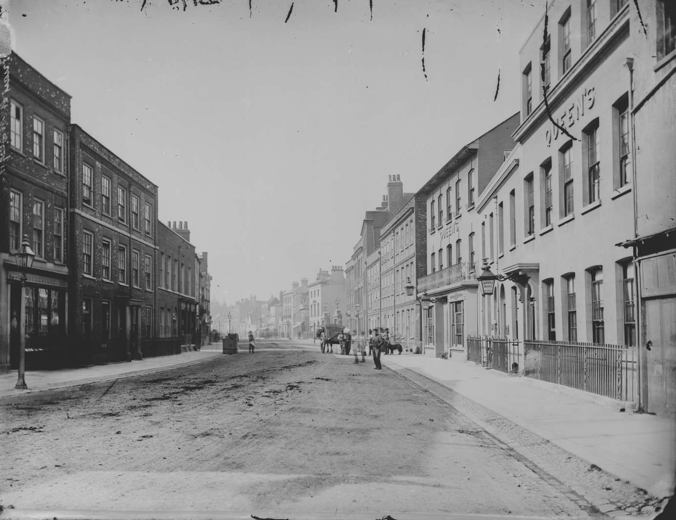 Friar Street, Reading, looking westwards, c. 1875. On the south side, No. 161 (Bavin and Ormiston, the Royal County Art and Ecclesiastical Needlework Repository); No. 160 (Henry Creed, solicitor); No. 159 (Binfield and Company's music warehouse). On the north side, No. 22 (Headquarters of the First Voluntary Battalion, the Royal Berkshire Regiment); the corner of Station Road with gas-lamps on tall masonry piers; No. 18; No. 17; No. 16; No. 15; No. 13; No. 11; Nos. 10, 9, 8 and 7 (Queen's Hotel). 1870-1879 : glass negative by H. W. Taunt, Box 22 No. 2476.